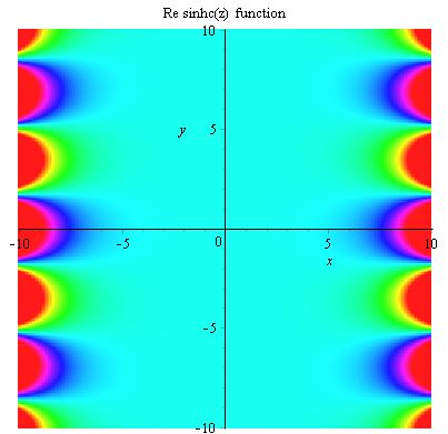 Sinhc Re plot